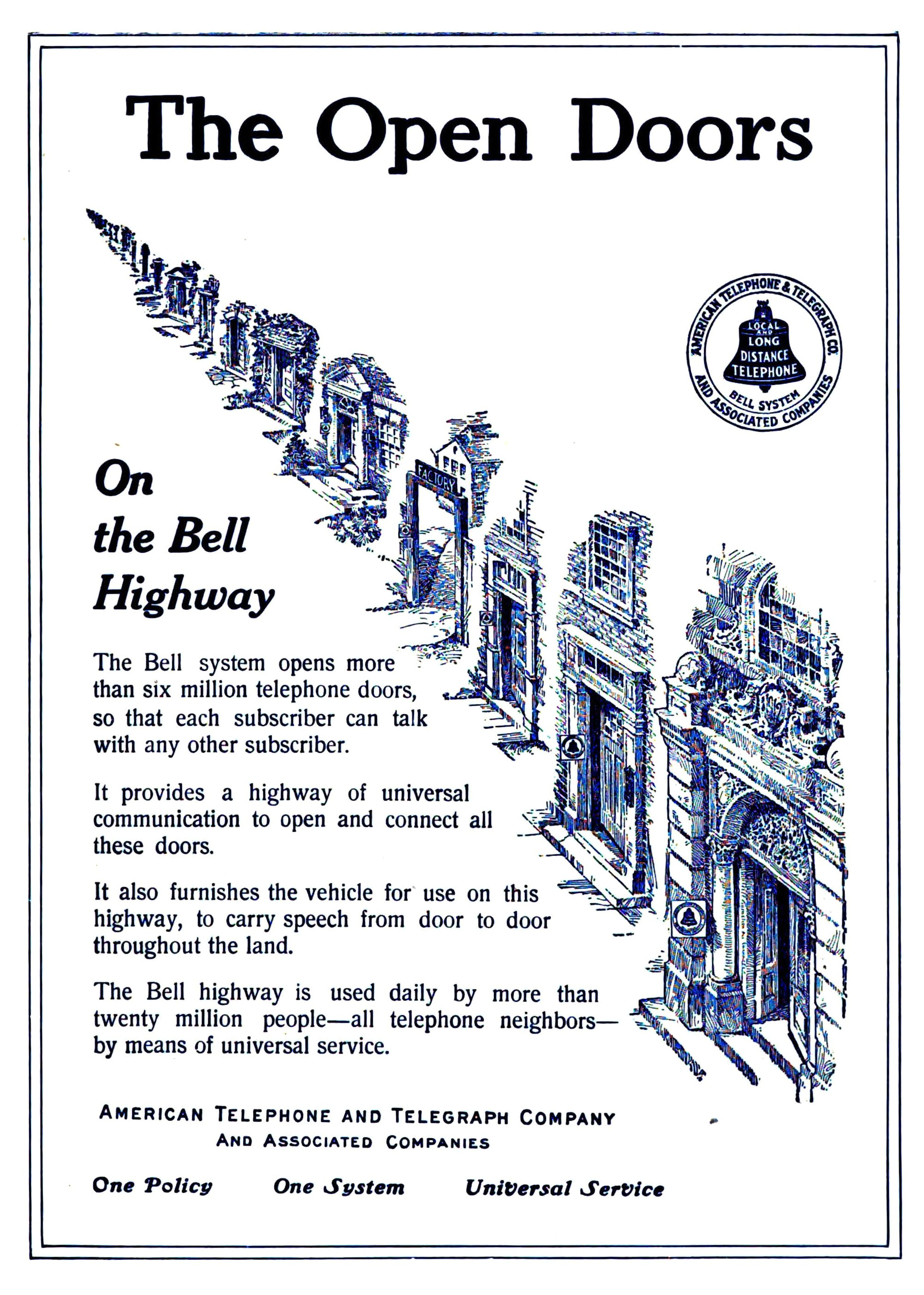 Bell System advertisement which depicts the promotion of the company's marketing slogan One Policy, One System, Universal Service.